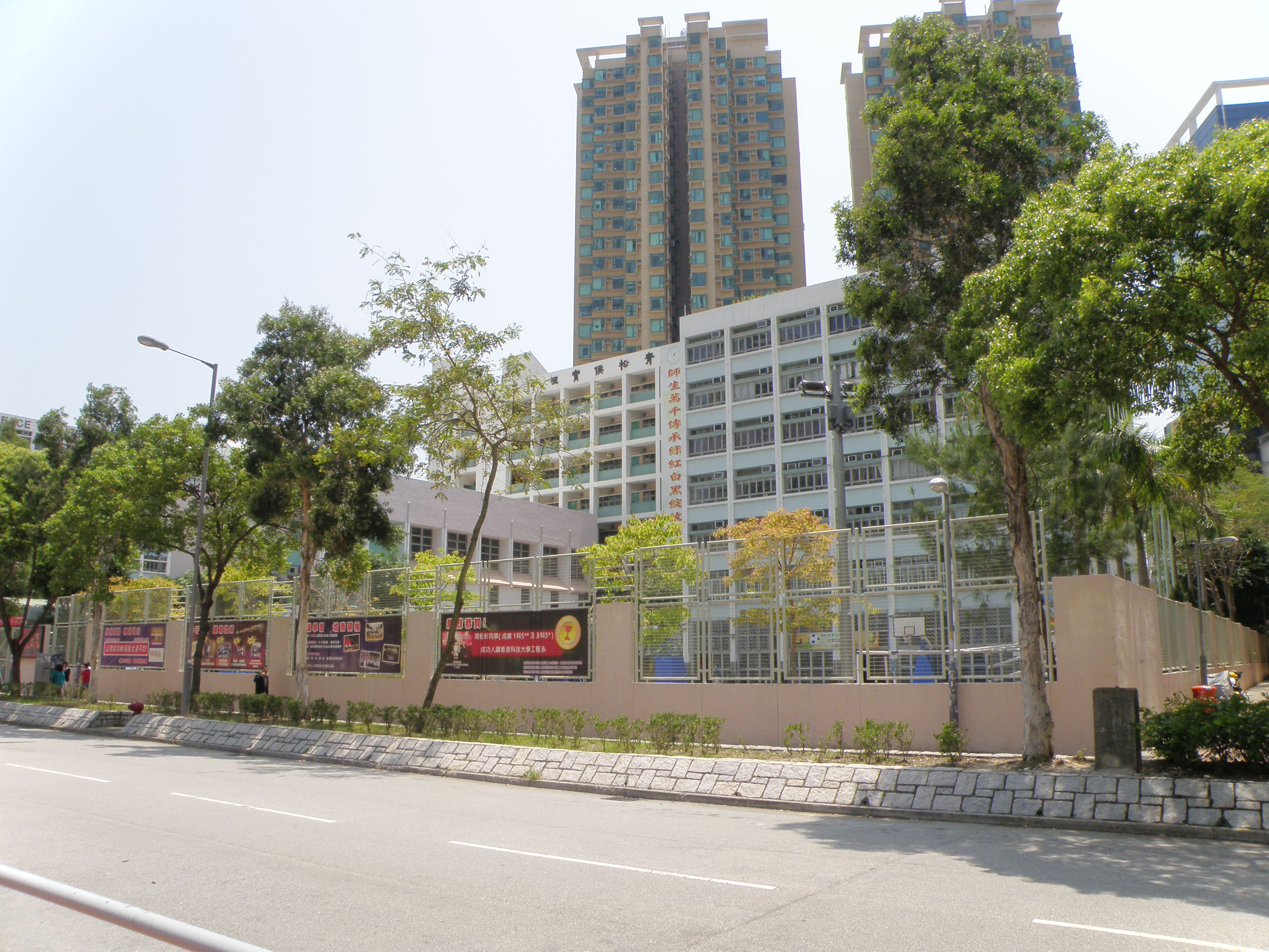 Ching Chung Hau Po Woon Secondary School in Tuen Mun, Hong Kong.